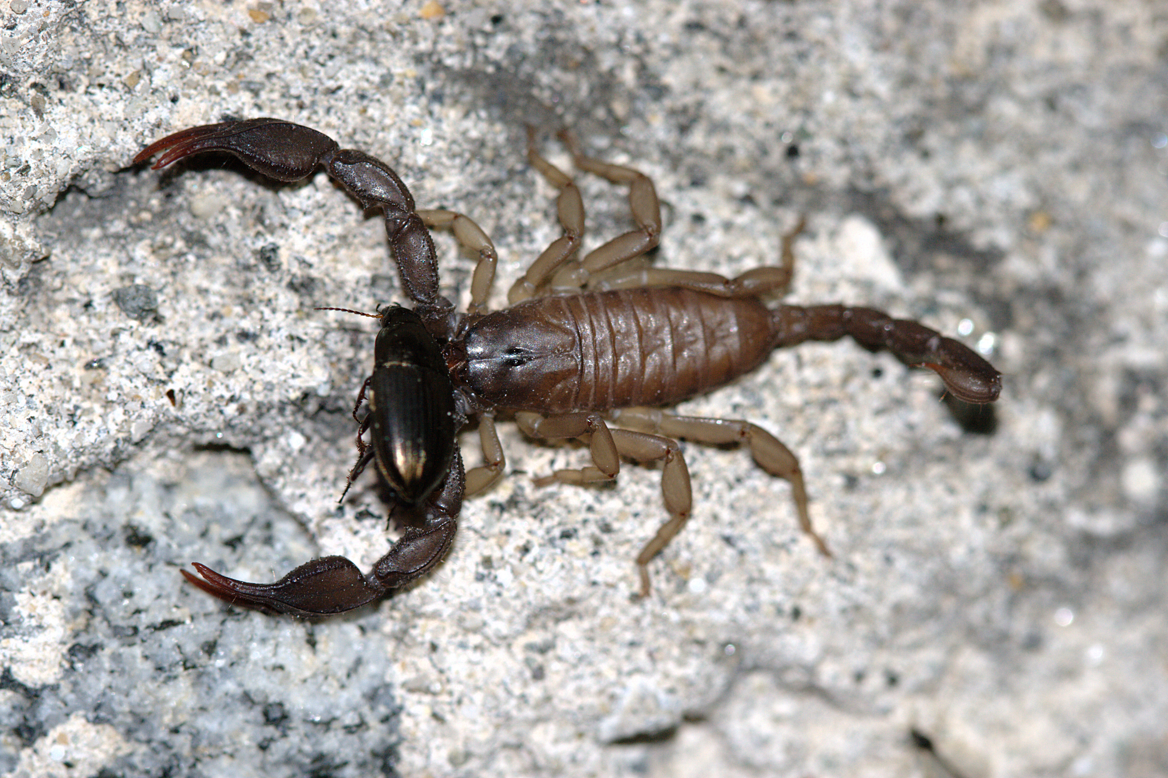 Euscorpius italicus in Vallemaggia. Night shot. Identification by Accipiter and Matt Braunwalder.